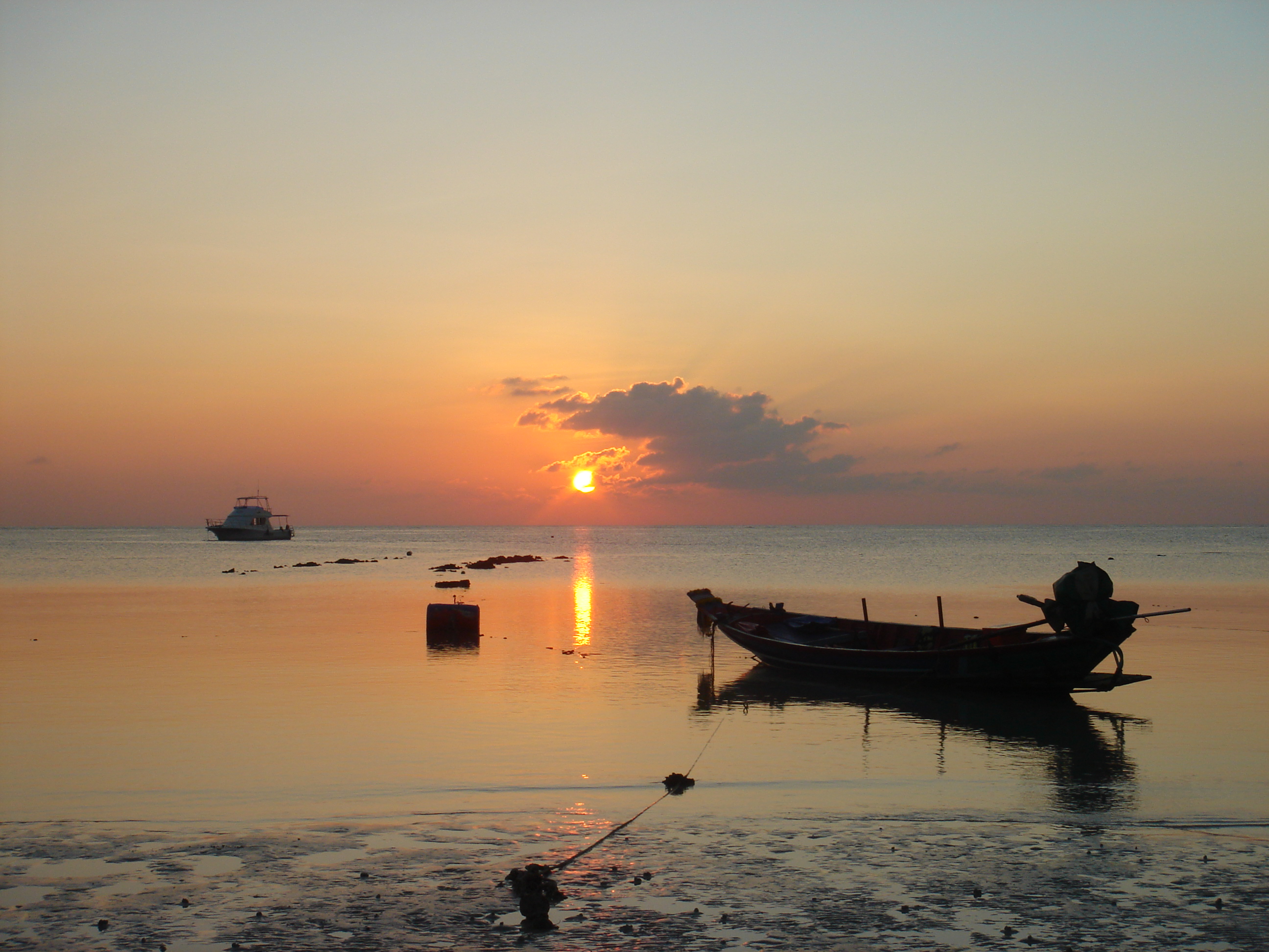 Sunset on Ko Tao, Thailand (Sonnenuntergang am Strand von Ko Tao in Thailand)